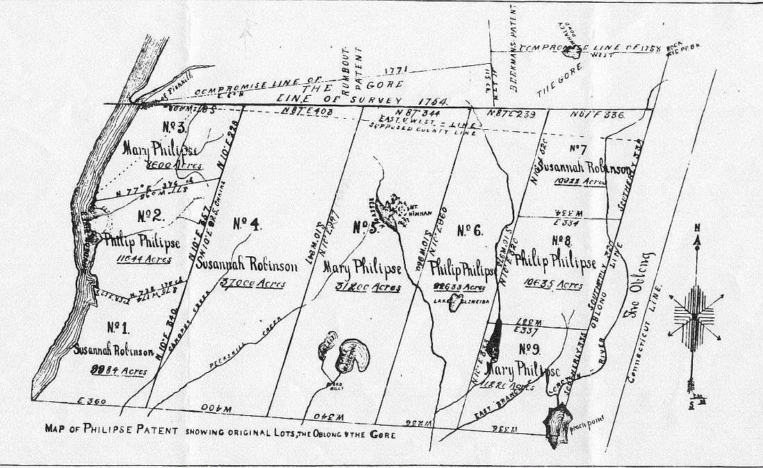 Map of the Philipse Patent, a land tract in lower New York State originally part of Dutchess County that became Putnam County in 1812. It also shows the Rombout Patent "Gore" (resolved in 1771) and Beekman Patent "Gore" (resolved in 1758), as well as a triangle of land south of Fish Kill Creek (proscribed by a diagonal dotted line) ceded by Putnam County to Dutchess upon its creation in 1812. The map was made some time after 1878, as it 1) displays what it describes as "the supposed county line" established between Dutchess and Putnam Counties in 1812; 2) indicates and labels "Lake Gleneida" in Carmel (in the center of plot #6), which only received that name in 1852 but did not develop its distinctive heart shape (as portrayed) until dammed in 1870; 3) indicates and labels a "resevoir" west of Mt. Nimham (in the upper half of plot #5) - Boyd's Corner, built in 1872; and 4) indicates Middle Branch reservoir (in the NW corner of plot #9) built in 1878.